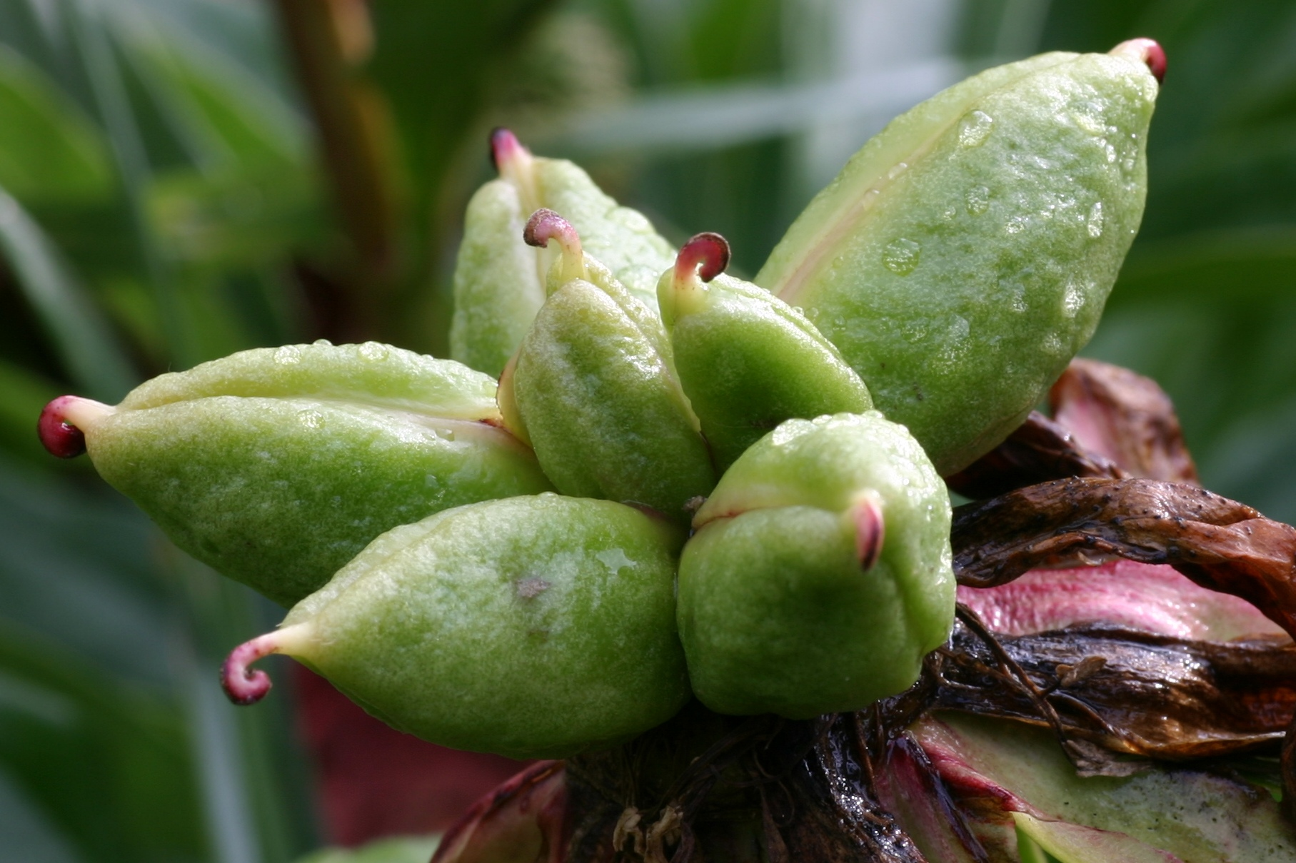 Paeoniaceae sp., closeup of fruits